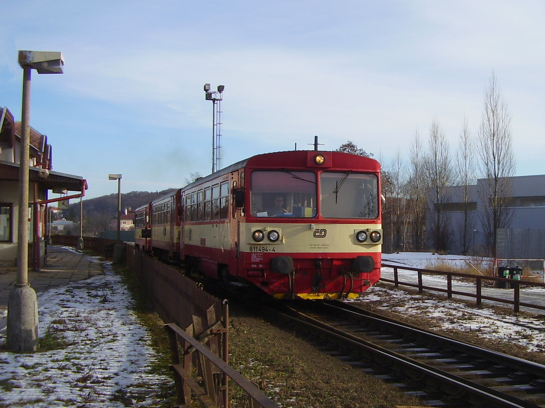 ČD class 811 in train station Praha-Ruzyně, Prague 6, Ruzyně